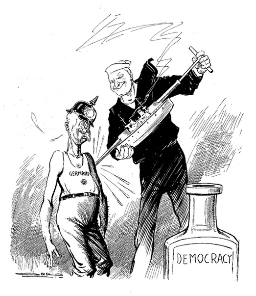 Cartoon by Carey Orr: A U.S. sailor injecting "Democracy" via a syringe shaped like a battleship into a figure representing Germany.